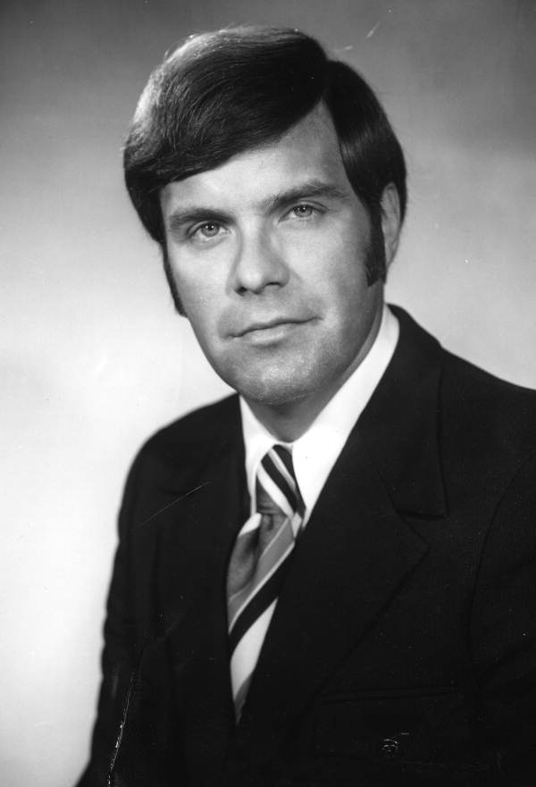 Speaker portrait of Haben while in the FL House